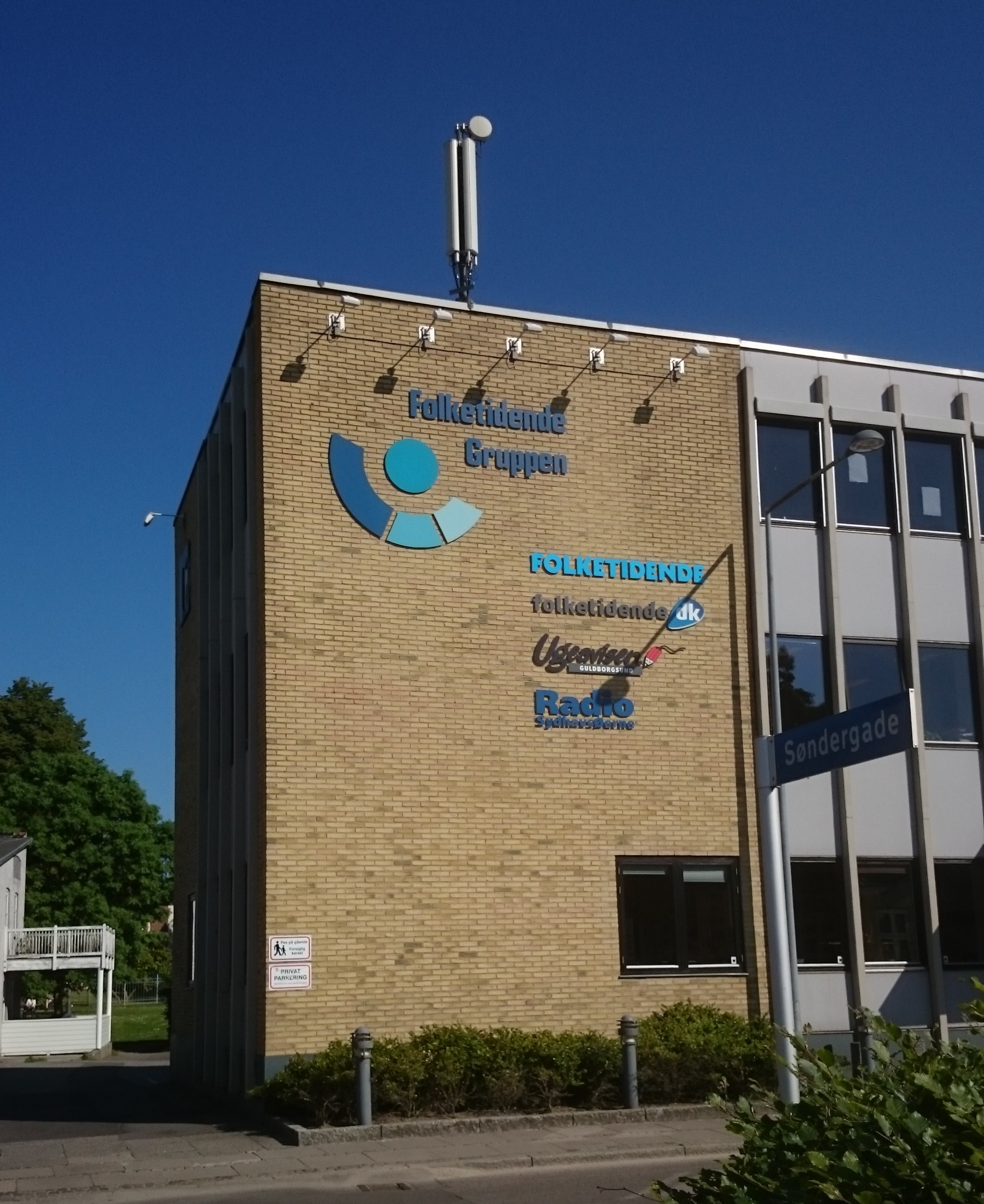 Hedaquarter of Danish newspaper Folketidende.